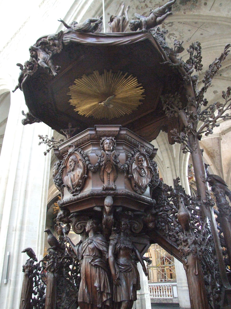 Cathedral of Our Lady, Antwerp, Belgium